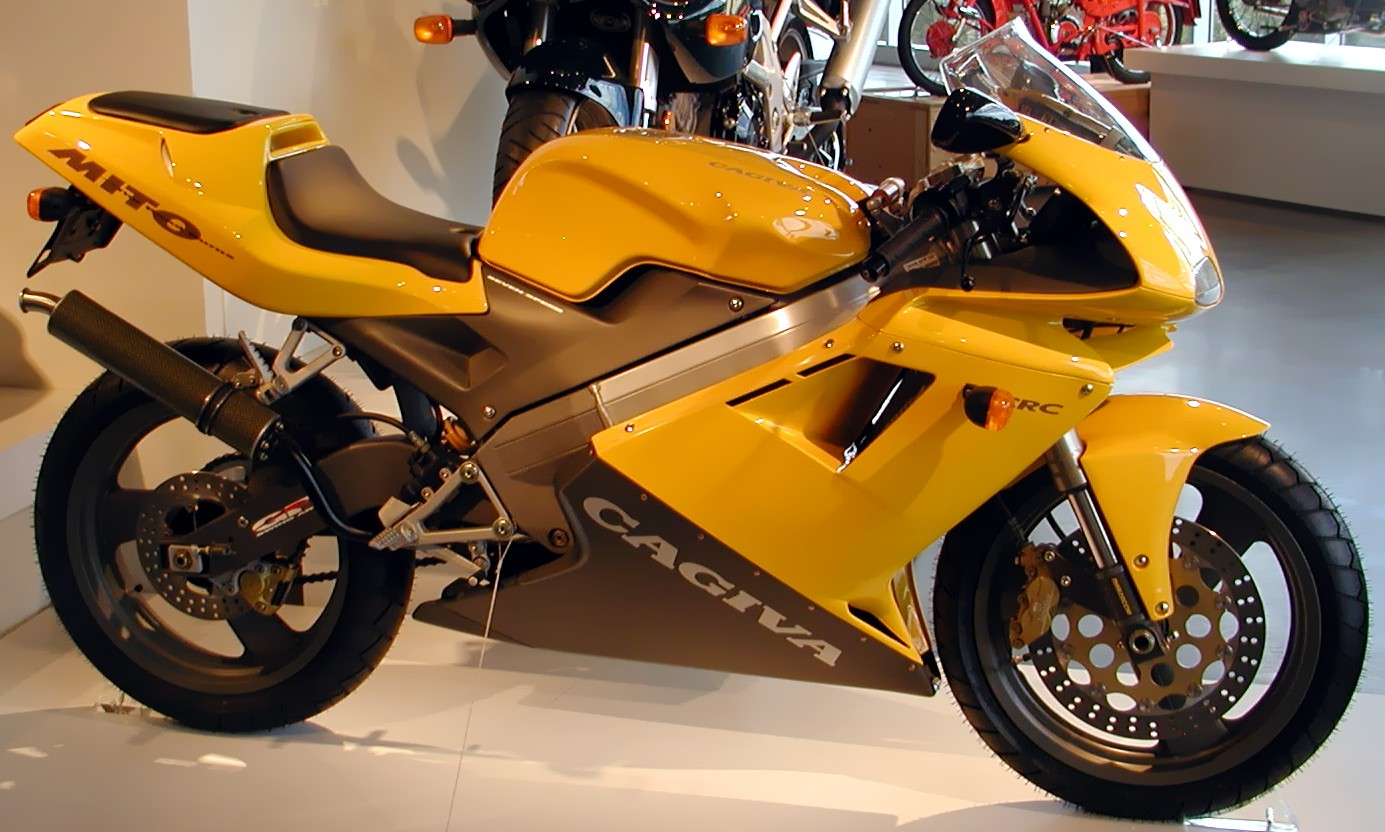 Barber Motorcycle Museum - Oct 22 2006 (567) 1995 Cagiva Mito125 / More description is here